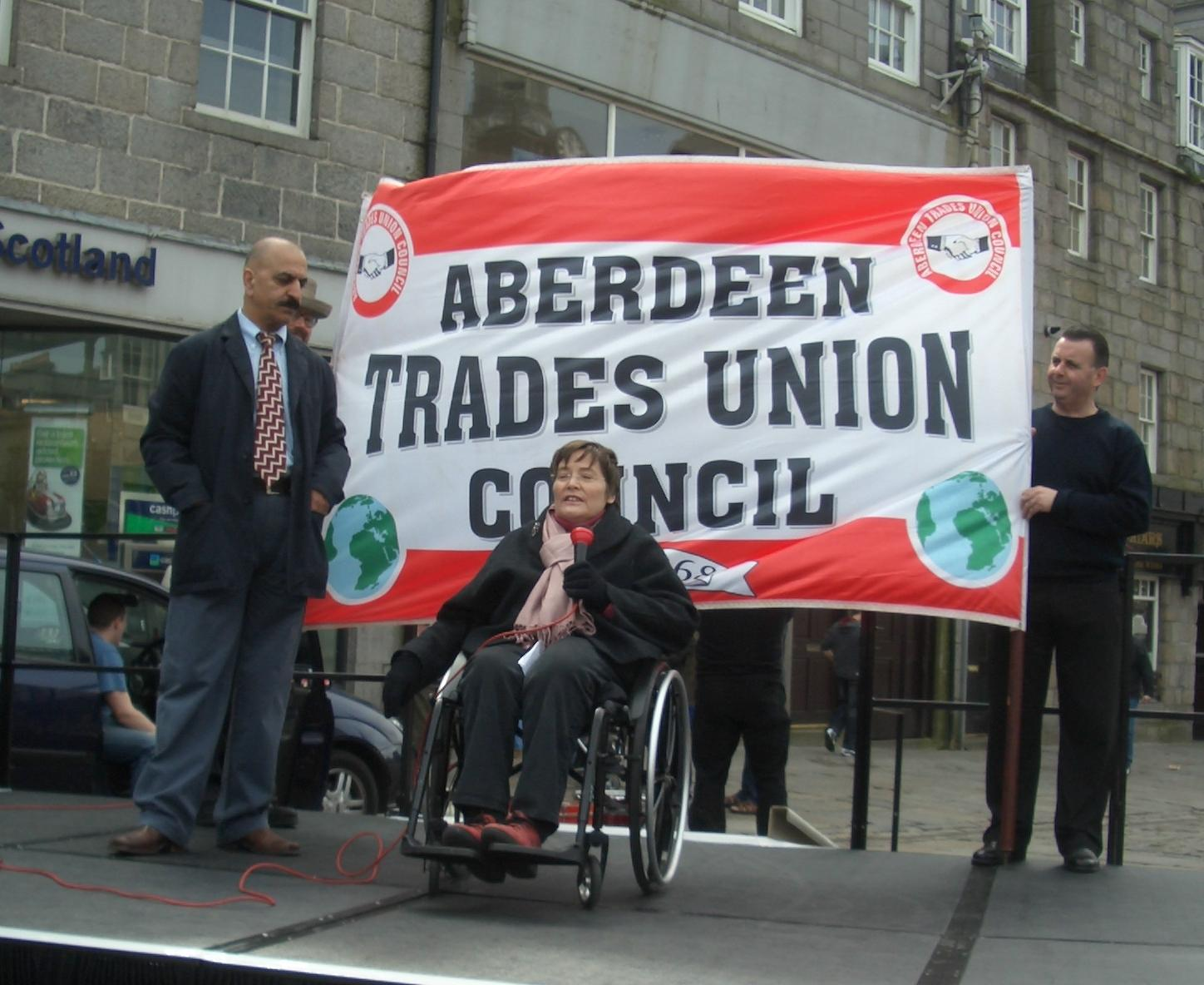 Anne Begg MP for Aberdeen South addressing the May Day rally at the Castlegate in Aberdeen. This picture should be attached to the article about Anne Begg MP.